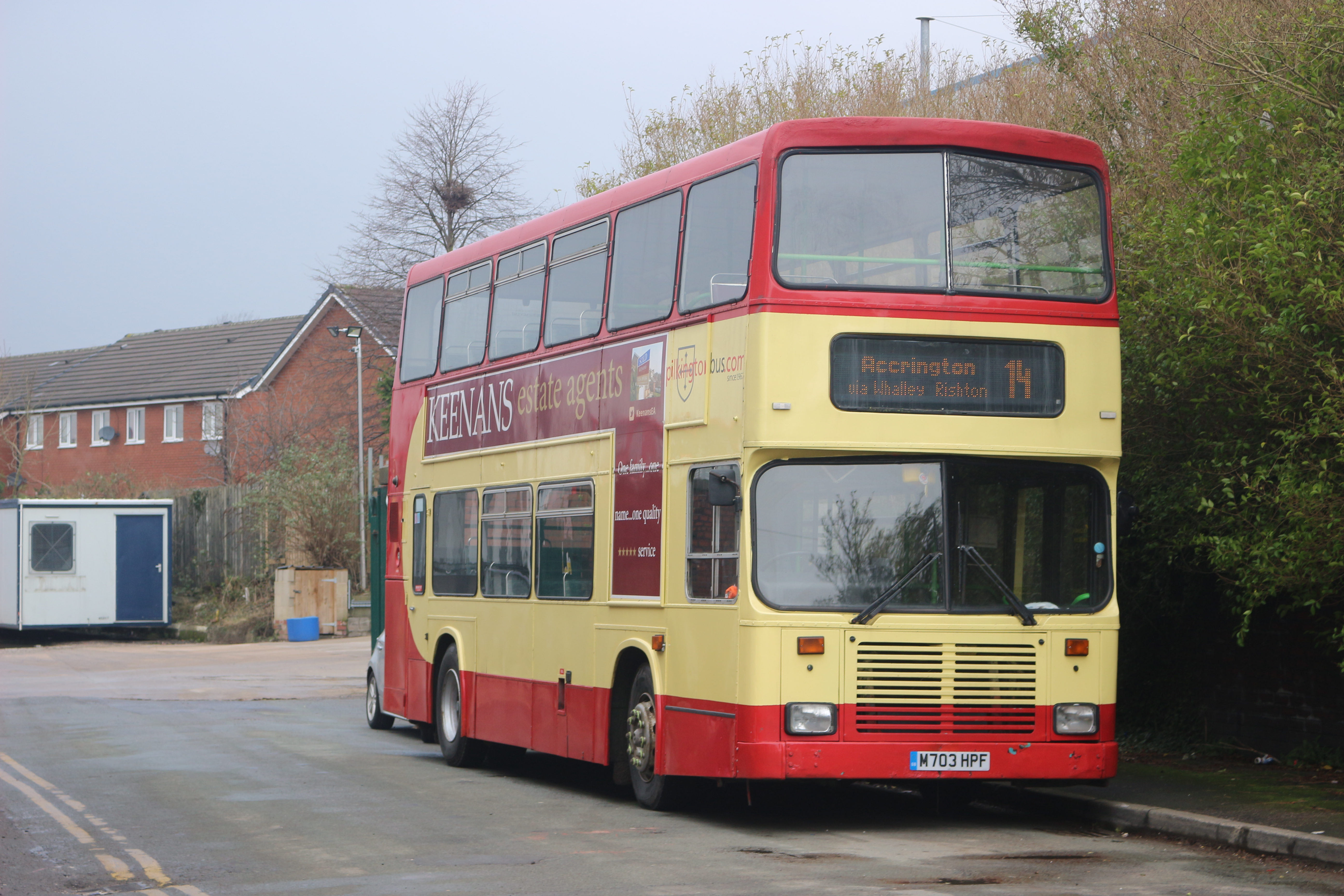 Volvo Olympian / East Lancs E type H44/30F Ex Arriva Yorkshire 520 & Arriva London South L703 Outside Pilkington's Accrington depot